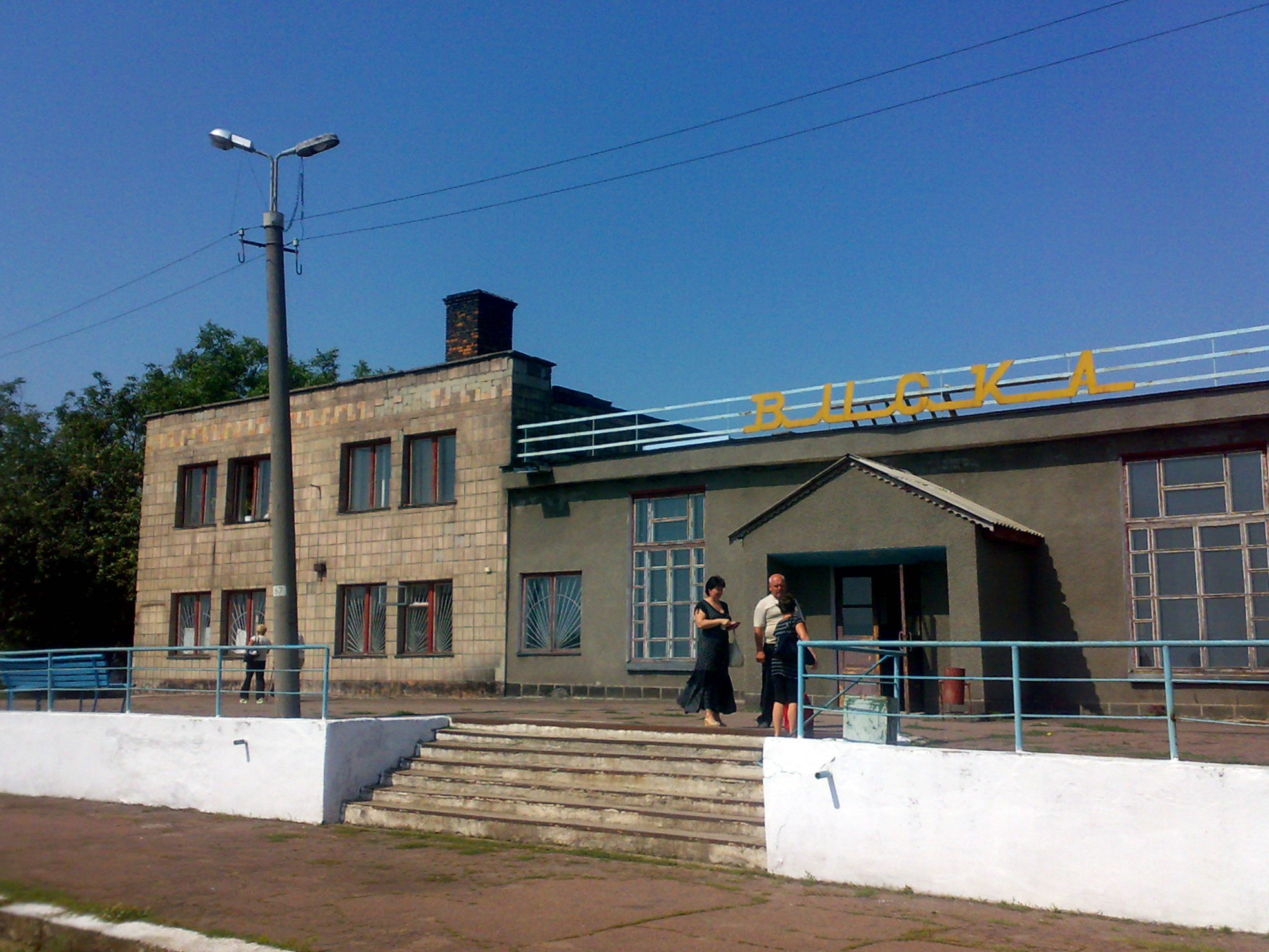 Train station in Mala Vyska (Kirovohrad Oblast, Ukraine)